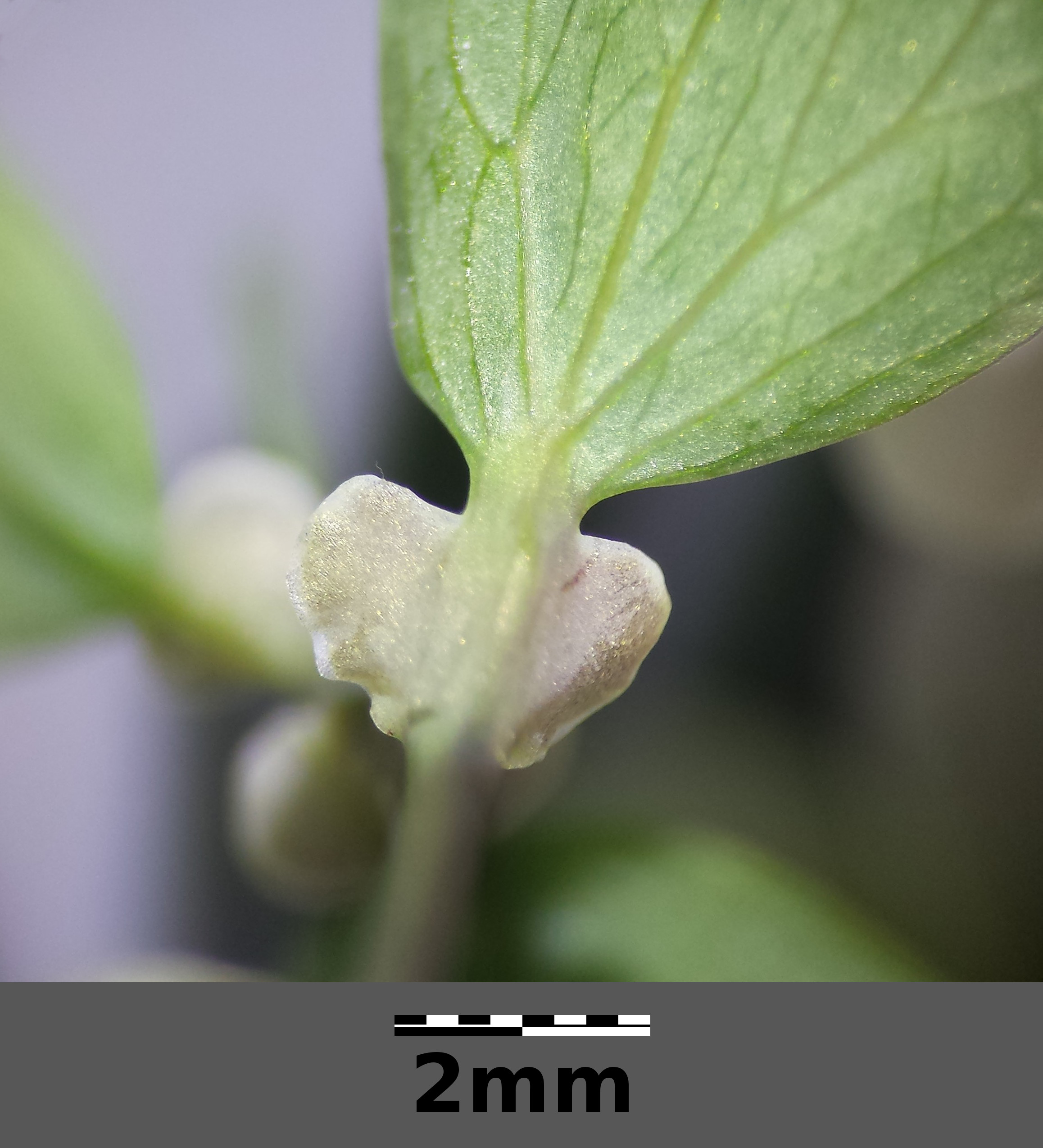 Stipe with leaves and false stipels Taxonym: Isopyrum thalictroides ss Fischer et al. EfÖLS 2008 ISBN 978-3-85474-187-9 Location: Rohrwald, district Korneuburg, Lower Austria - ca. 250 m a.s.l. Habitat: Carpinion betuli